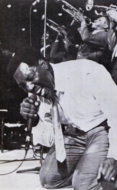 Trade ad for Otis Redding's single "Fa-Fa-Fa-Fa-Fa (Sad Song)".To better adapt it to his respective Wikipedia article, the ad was cropped and cleaned in a graphics editing program. The original can be viewed at the source below.